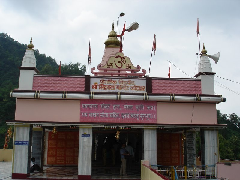 Sidhbali temple at Kotdwar, Uttarakhand, India